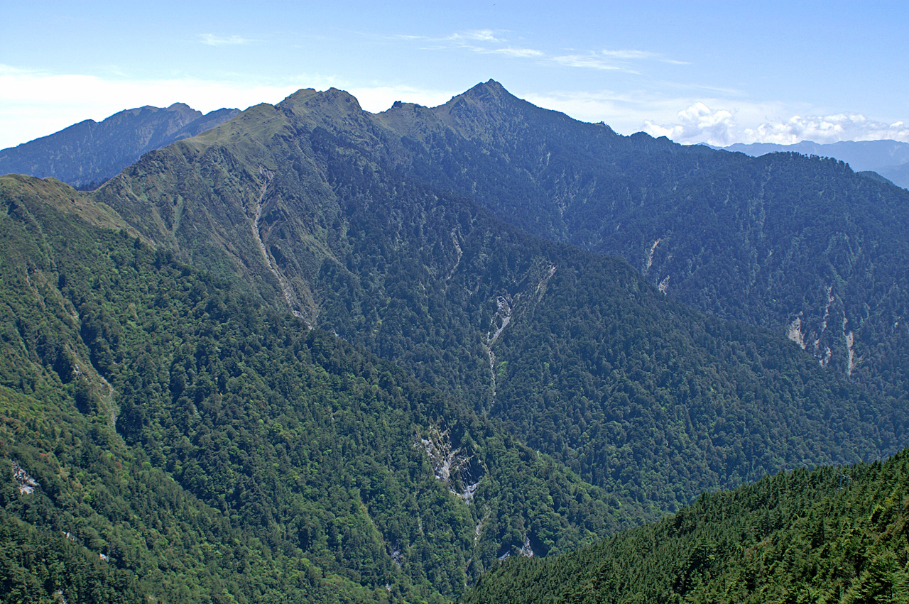 Mountain Neng Gau